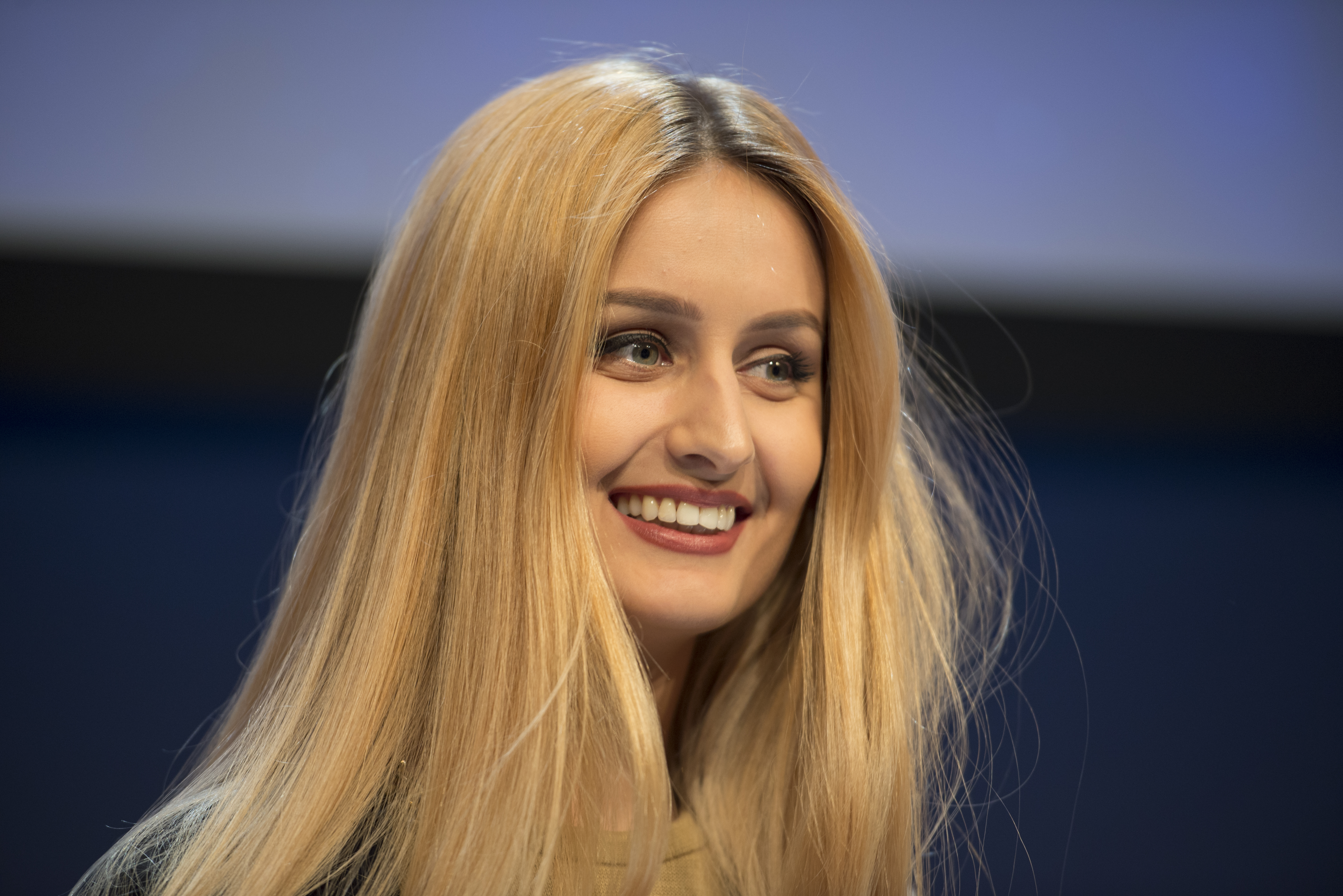 Lidia Isac at a Meet & Greet during the Eurovision Song Contest 2016 in Stockholm. (Help translate this text)